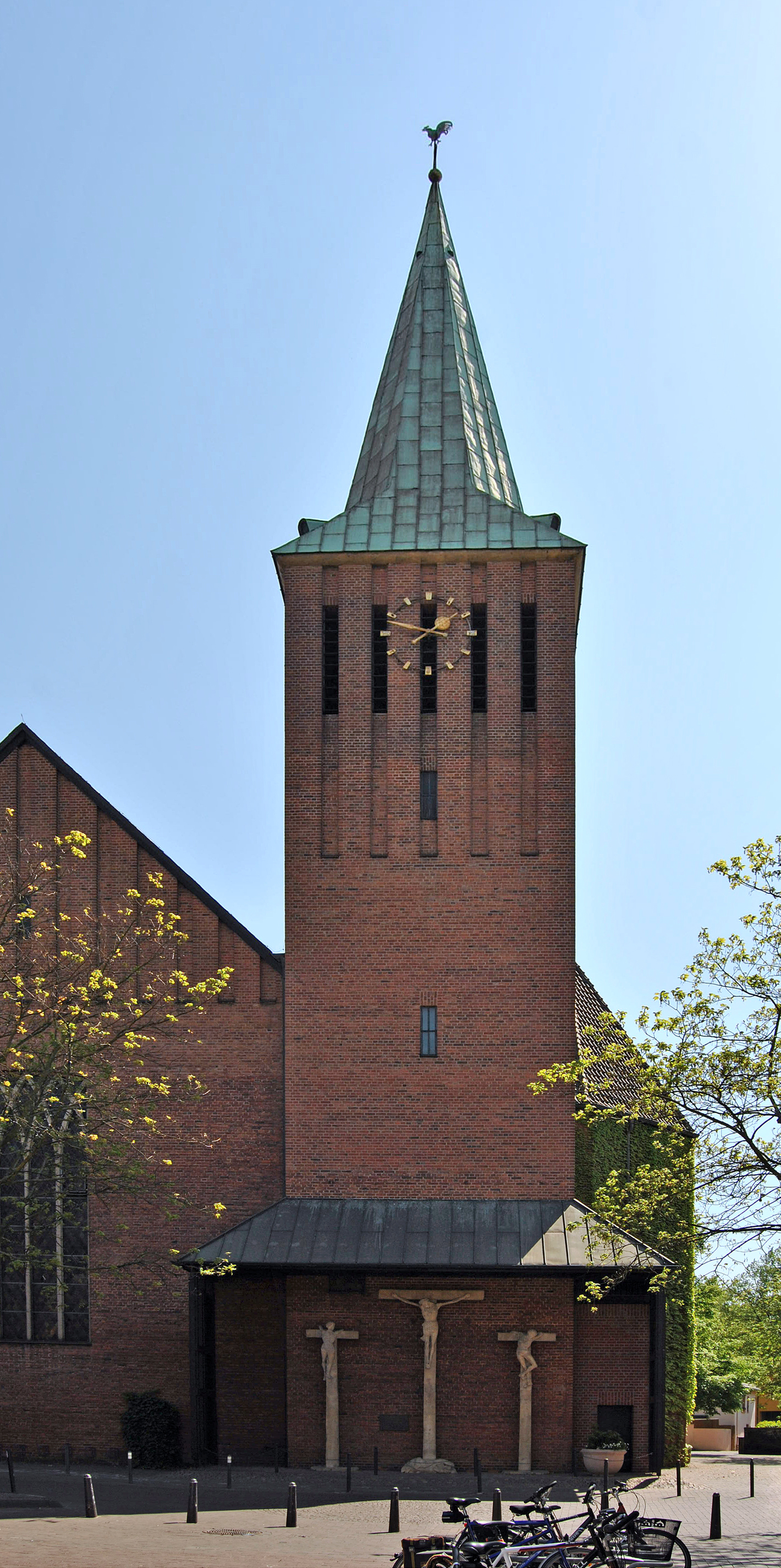 Dinslaken (North Rhine-Westphalia, Germany) – Catholic Vincent of Saragossa Church – north side of the tower This image shows a heritage building in Germany, located in the North Rhine-Westphalian city Dinslaken (no. 7). This photograph was taken with a Nikon D3000.